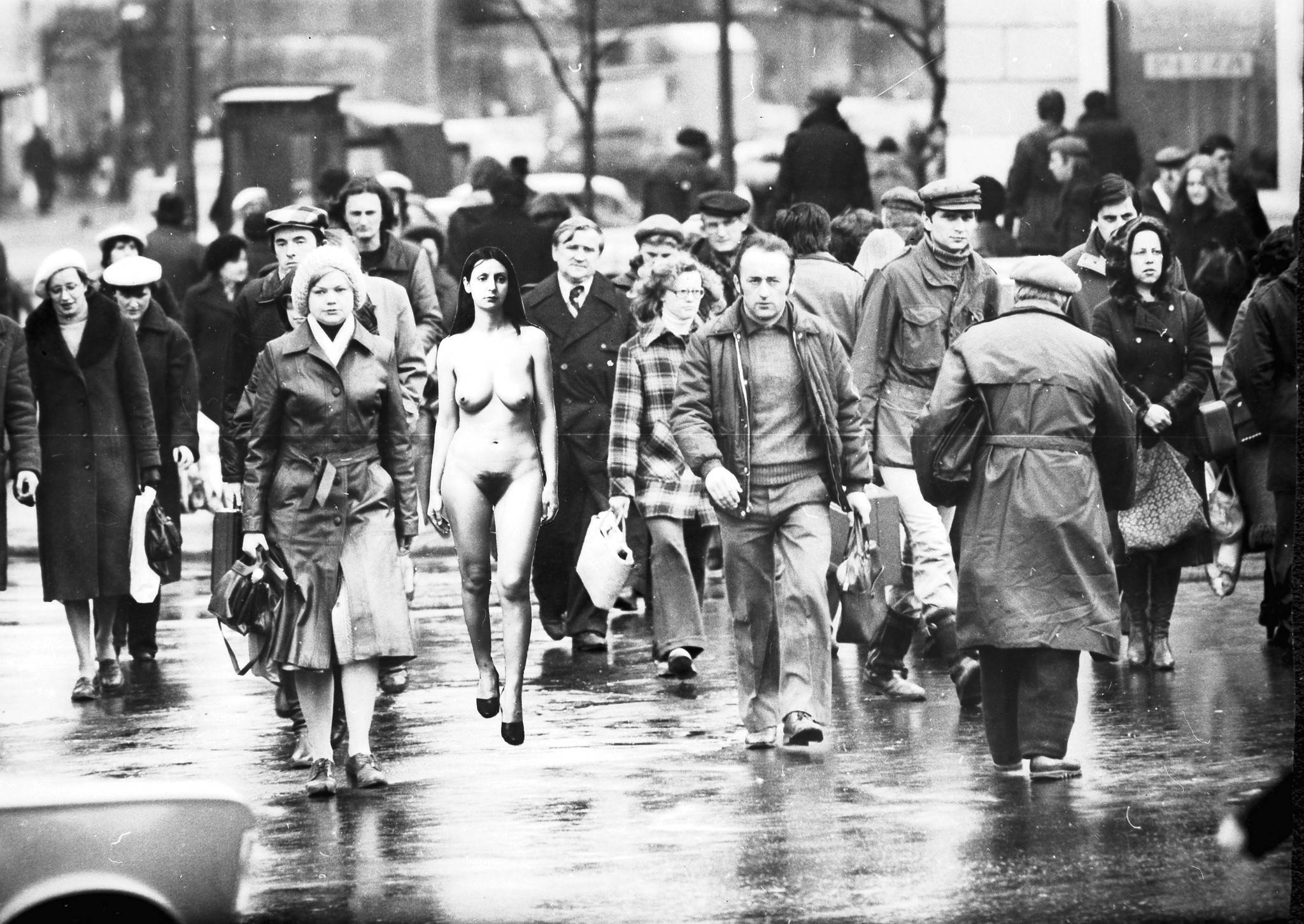 Ewa Partum, Self-Identification, 1980